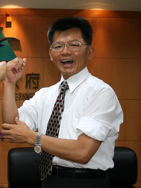 Chiu-hsing Yang, the governor of Kaohsiung County.